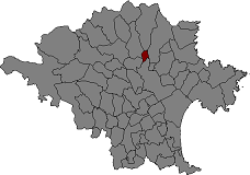 Location of Mollet de Peralada in Alt Empordà